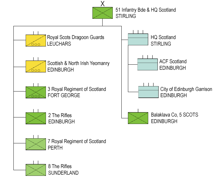 51 Infantry Brigade July 2020 Graphic